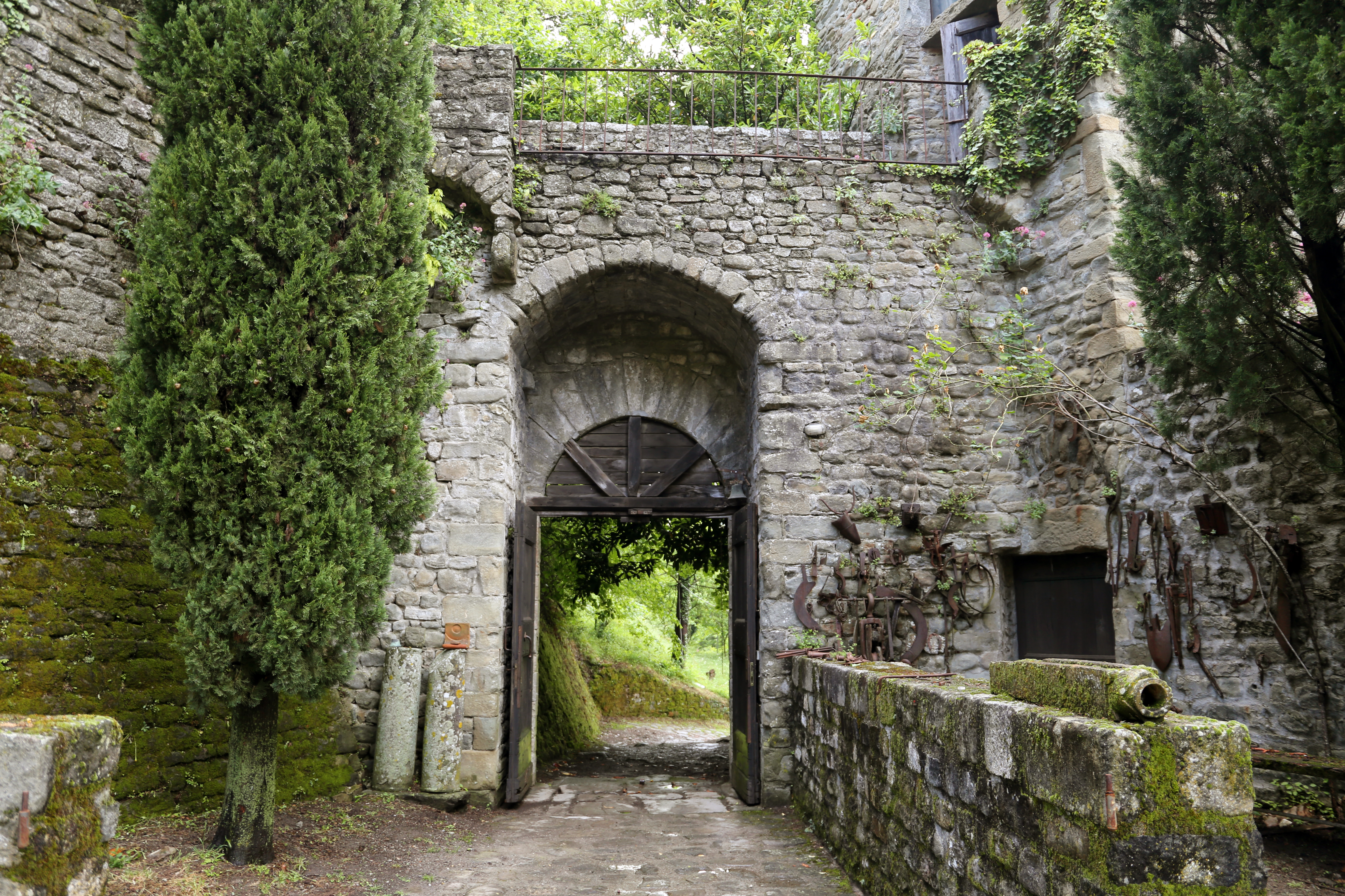 Fortezza della Verrucola (Fivizzano)